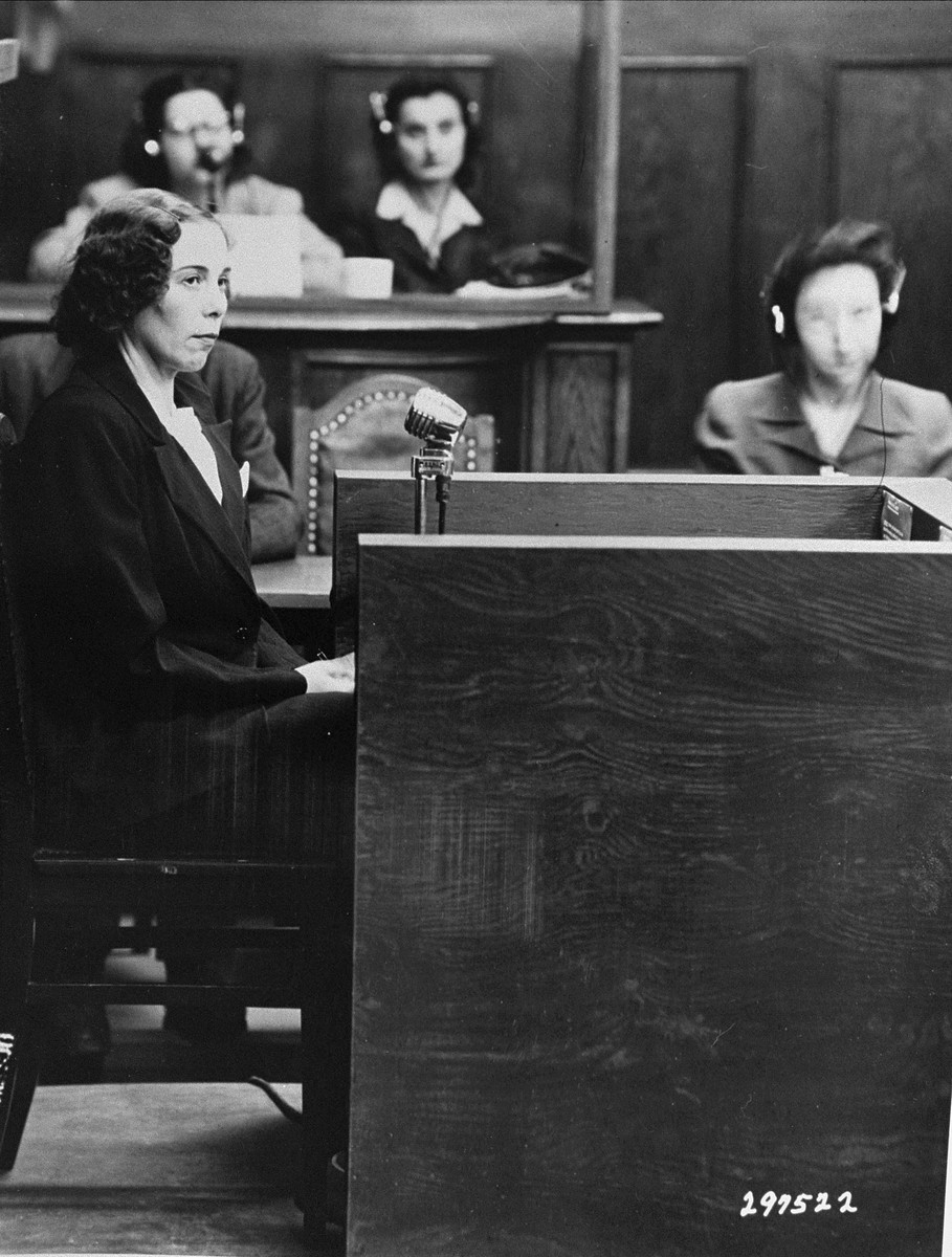 On September 30, 1947, the U.S. Military Government for Germany reconstituted the Military Tribunal I, which had earlier been convened for the Doctors' Trial, to try the RuSHA Case. The 14 defendants were all leading officials in the RuSHA or Main Race and Resettlement Office, a central organization in the implementation of racial programs of the Third Reich, or in other organizations with parallel missions, such as the Lebensborn Society and the Main Office for Repatriation of Racial Germans. The indictment against them listed three counts: crimes against humanity, war crimes and membership in criminal organizations. The defendants were accused of criminal responsibility for many aspects of the Nazi racial program, including the kidnapping of "racially valuable" children for Aryanization, the forcible evacuation of foreign nationals from their homes in favor of Germans or Ethnic Germans, and the persecution and extermination of Jews throughout Germany and German-occupied Europe. The trial ran from October 20, 1947 to February 17, 1948. The tribunal rendered its judgment on March 10. It found eight defendants guilty on all counts, five guilty only of membership in a criminal organization, and one not guilty. The sentences were announced the same day. The chief defendant, Ulrich Greifelt, was sentenced to life in prison, seven to terms of between 10 and 25 years, five to time already served, and one was acquitted.